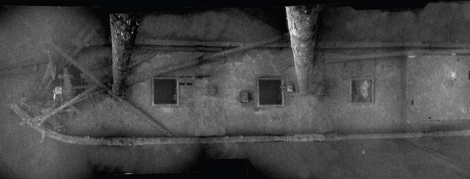 Photomosaic of the shipwreck of Kyle Spangler in Lake Huron, Thunder Bay National Marine Sanctuary, Michigan, United States. Caption in source document: [P]hotomosaic … of the schooner ‘’Kyle Spangler’’ resting in 185 feet of water off Presque Isle, Mich. The site possesses high recreational and archaeological potential, and has become a popular scuba diving attraction since its location was made known to the public in 2008. Discovered in 2003 by local diver Stan Stock, the wreck’s location remained secret until the site was documented by Stock, Tracey Xelowski and sanctuary archaeologists, after which it was jointly decided to release the coordinates to the public.